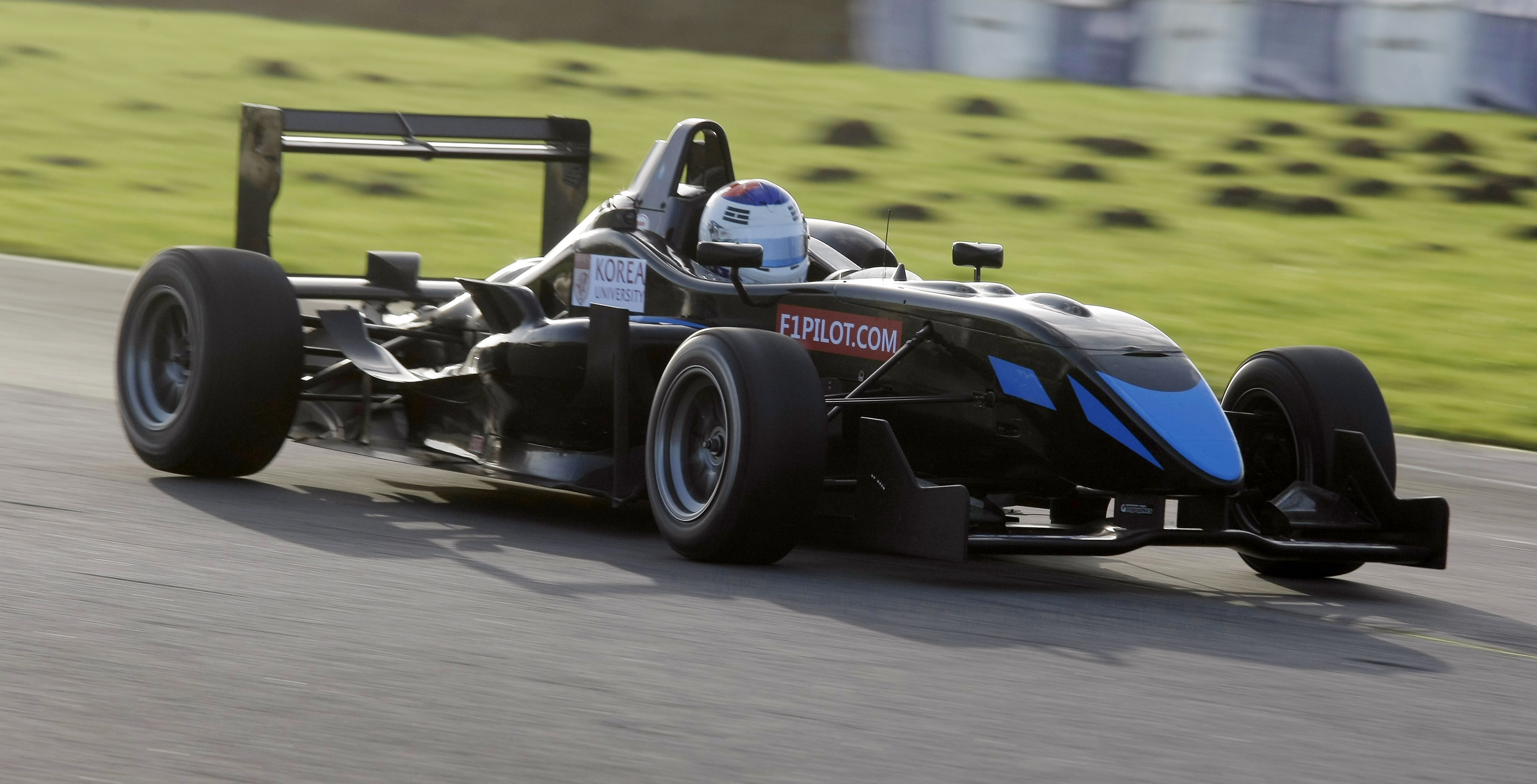 Heamin Choi at Pembrey Circuit